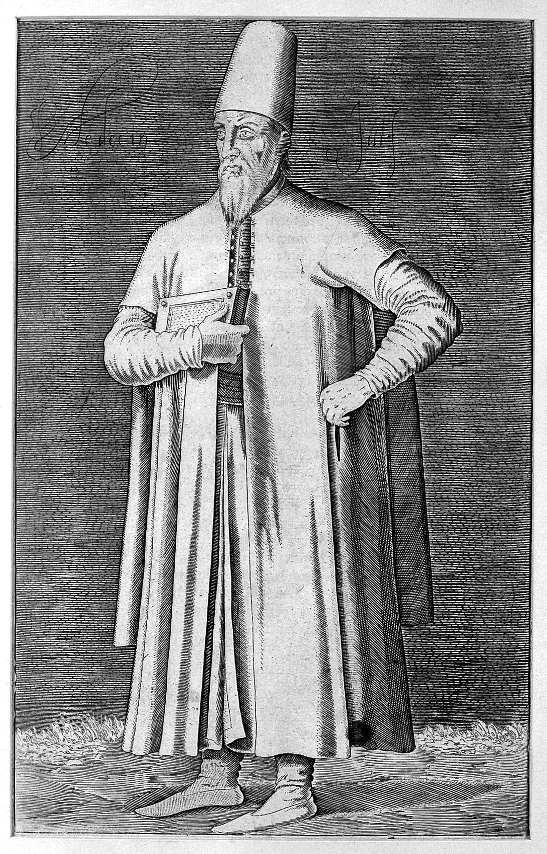 Iconographic Collections